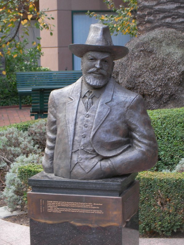 Bronze statue of George Adams on St Kilda Road. Melbourne, Victoria. Australia.